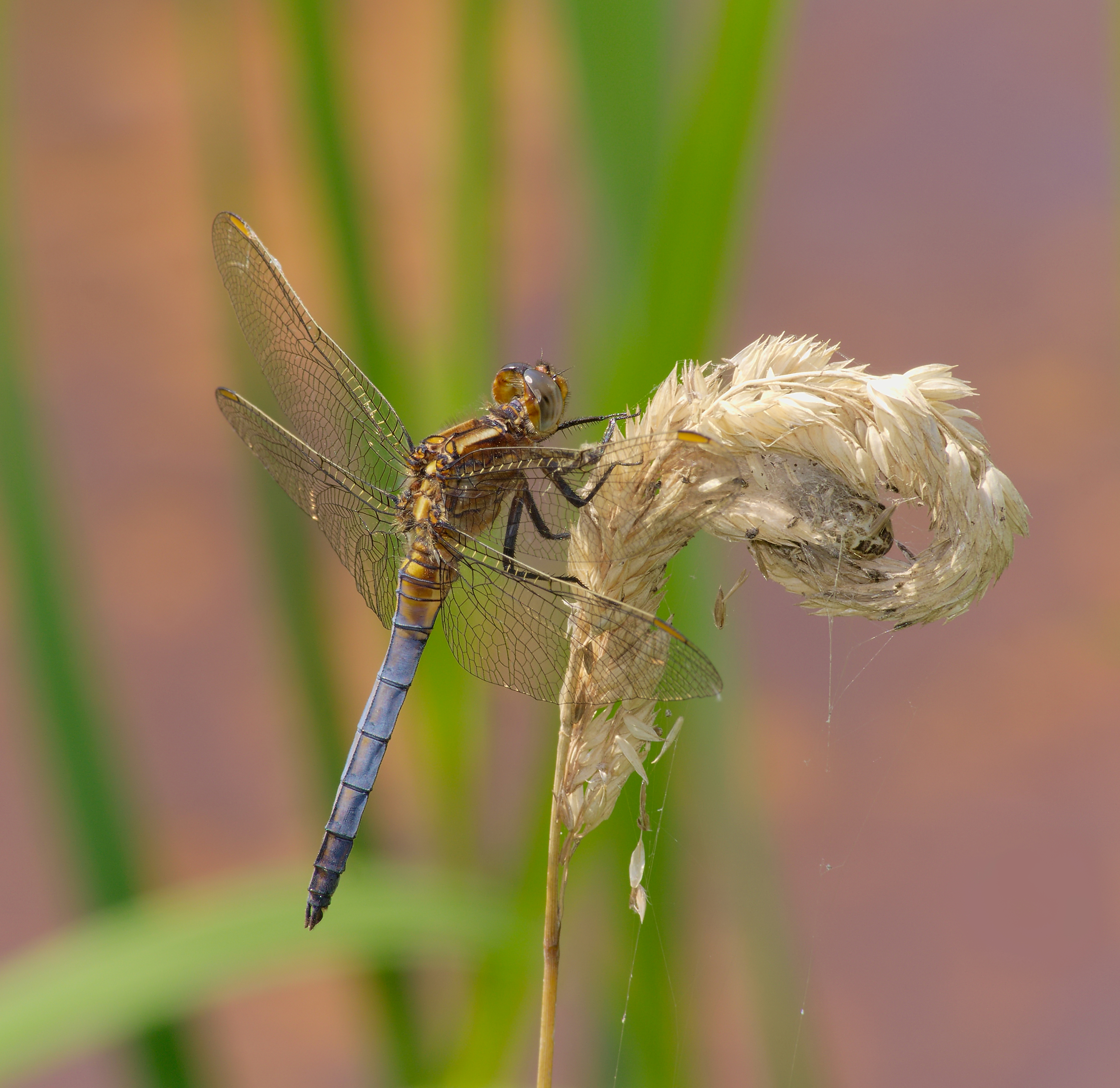 Keeled skimmer - Orthetrum coerulescens, male. Taken by the Schwarzbach in Wöllnau, Doberschütz, Saxony, Germany.